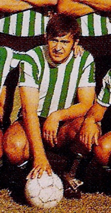 Oscar Álvarez - Club Atlético Banfield - Metropolitano 1969